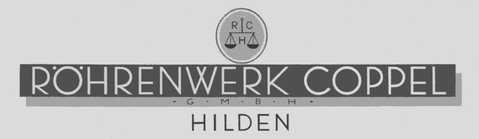 Letterhead of pipe plant Coppel, Hilden/Germany, 1937